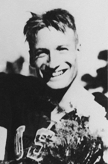 1952 Press Photo John Davies and Bowen D. Stassforth with Swimming Awards